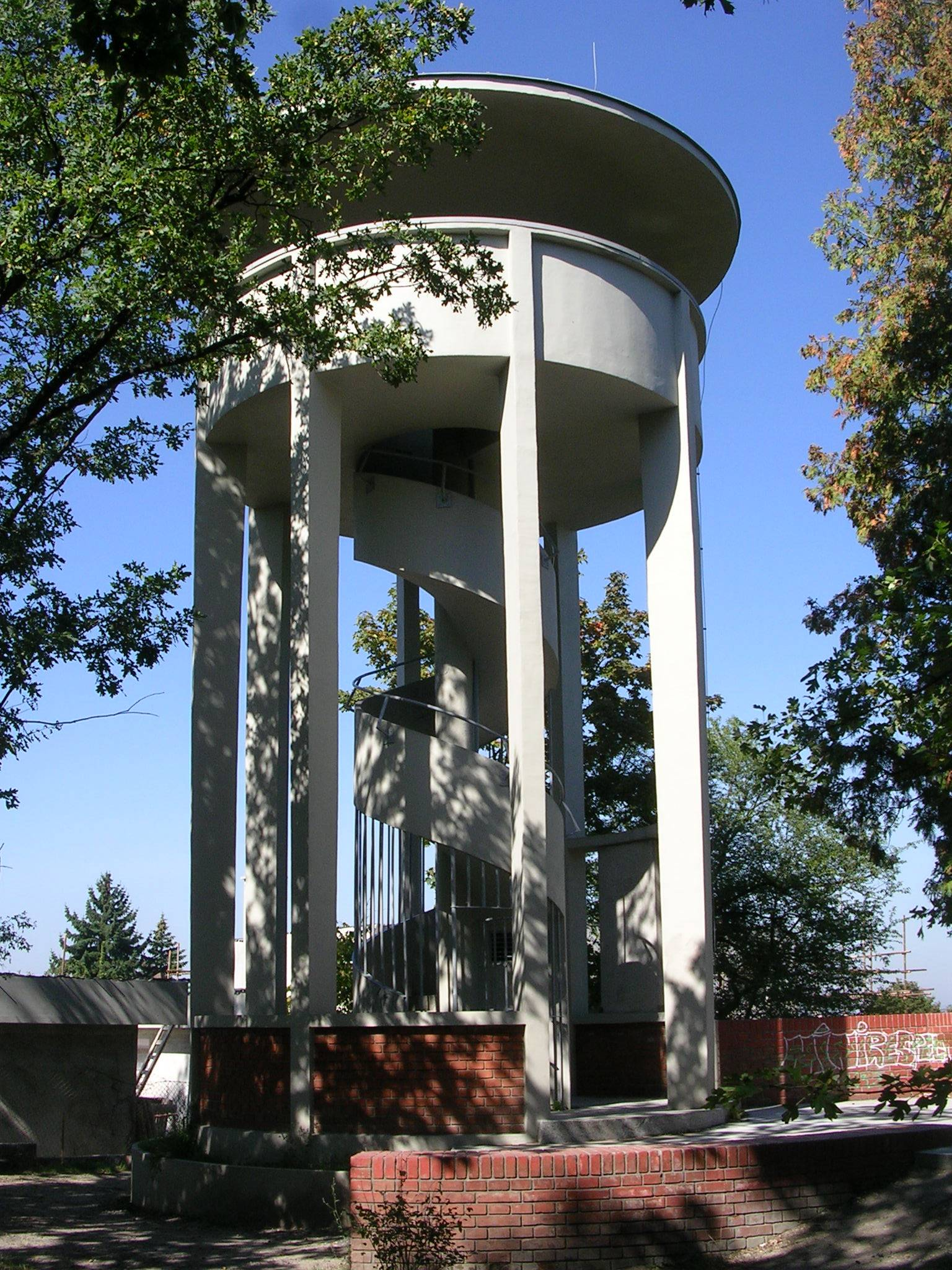 Kratochvíl´s observation tower in Roudnice nad Labem, Ústí nad Labem Region, the Czech Republic.